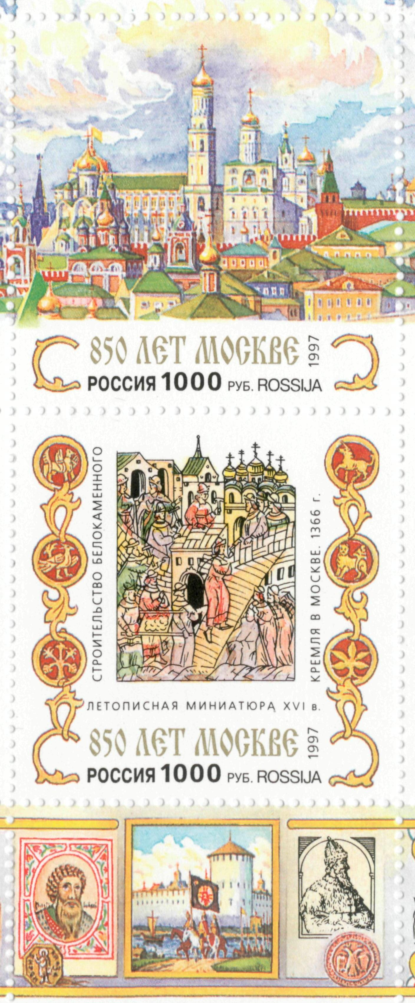 Strip of stamps, Construction of white-stone Kremlin in Moscow. Russia, 1997. Unused. From the stamp sheet, 850th anniversary of Moscow.